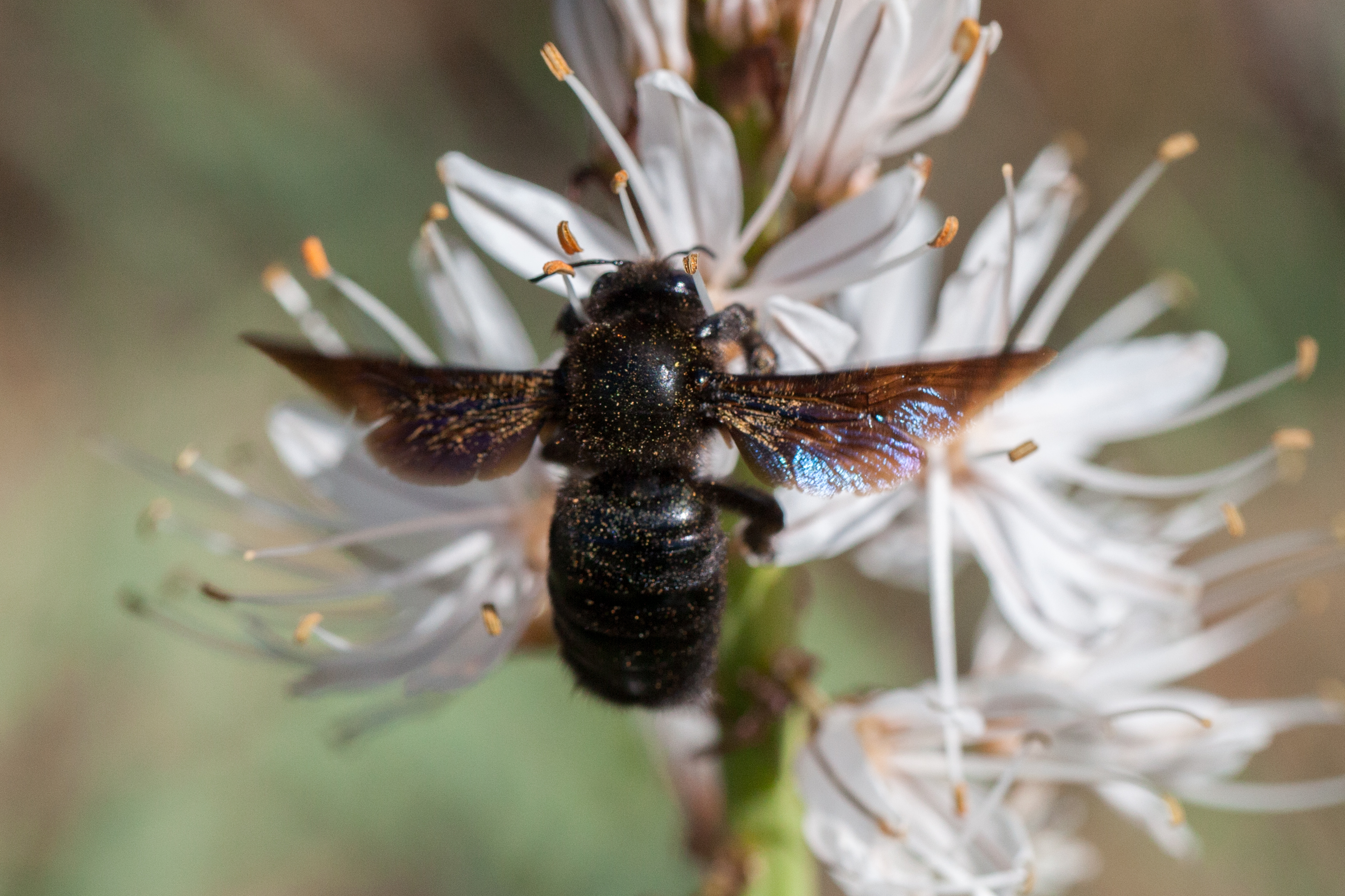 Xylocopa violacea, Blauwzwarte houtbij; Violet carpenter bee